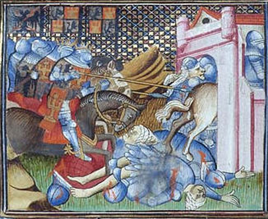 Battle of Montiel 1369